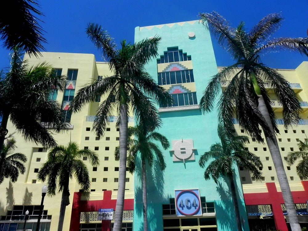 Miami - Art Déco Historic Districts - 404 Building